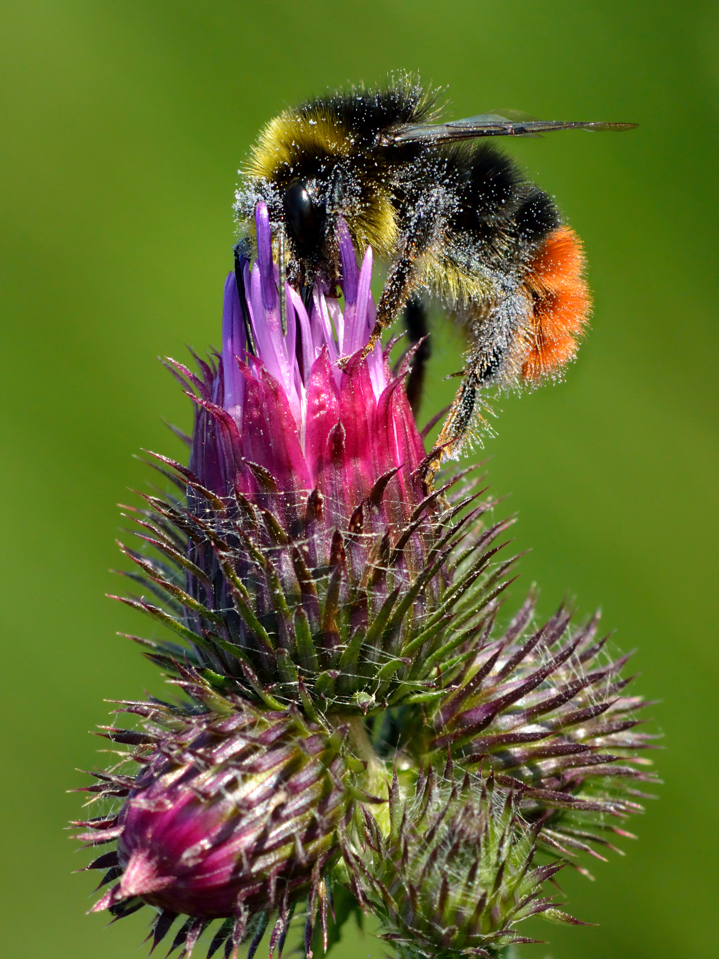 Red-tailed bumblebee drone (Bombus lapidarius) on the curly plumeless thistle (Carduus crispus). Keila, Northwestern Estonia.